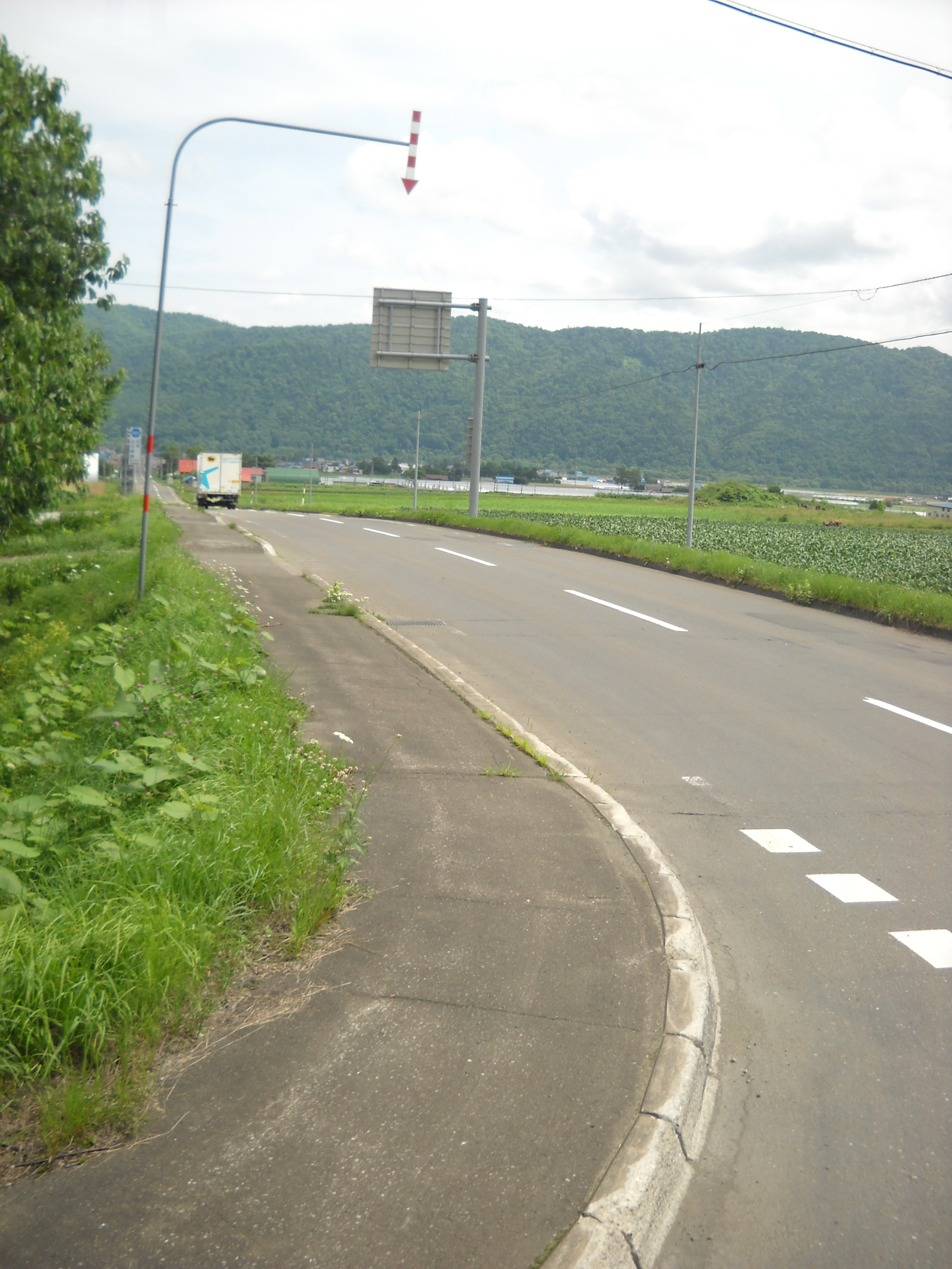 Hokkaido prefectural road route985, Furano, Hokkaido, Japan